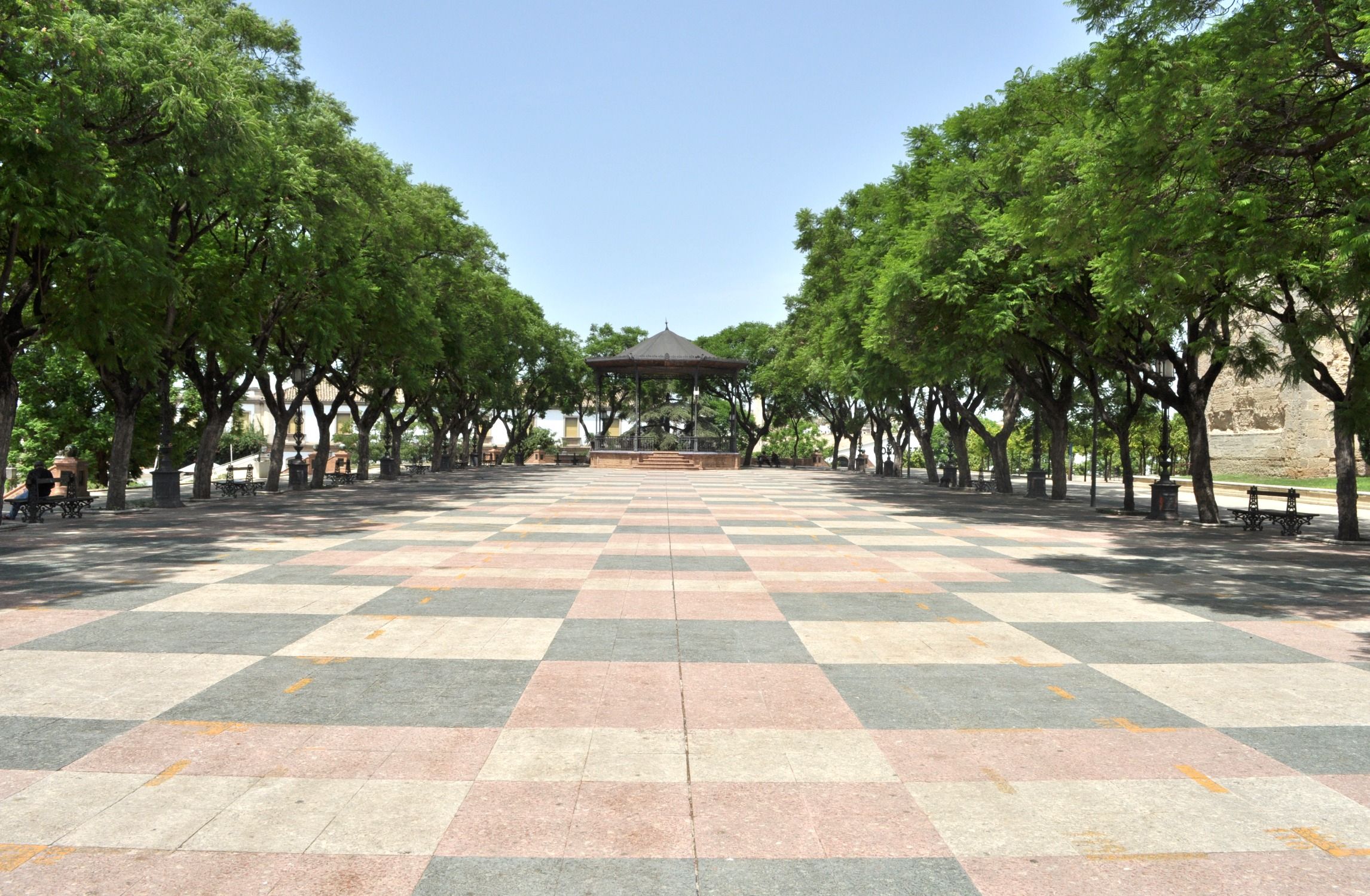 Main Esplanade, Old Square, Jerez